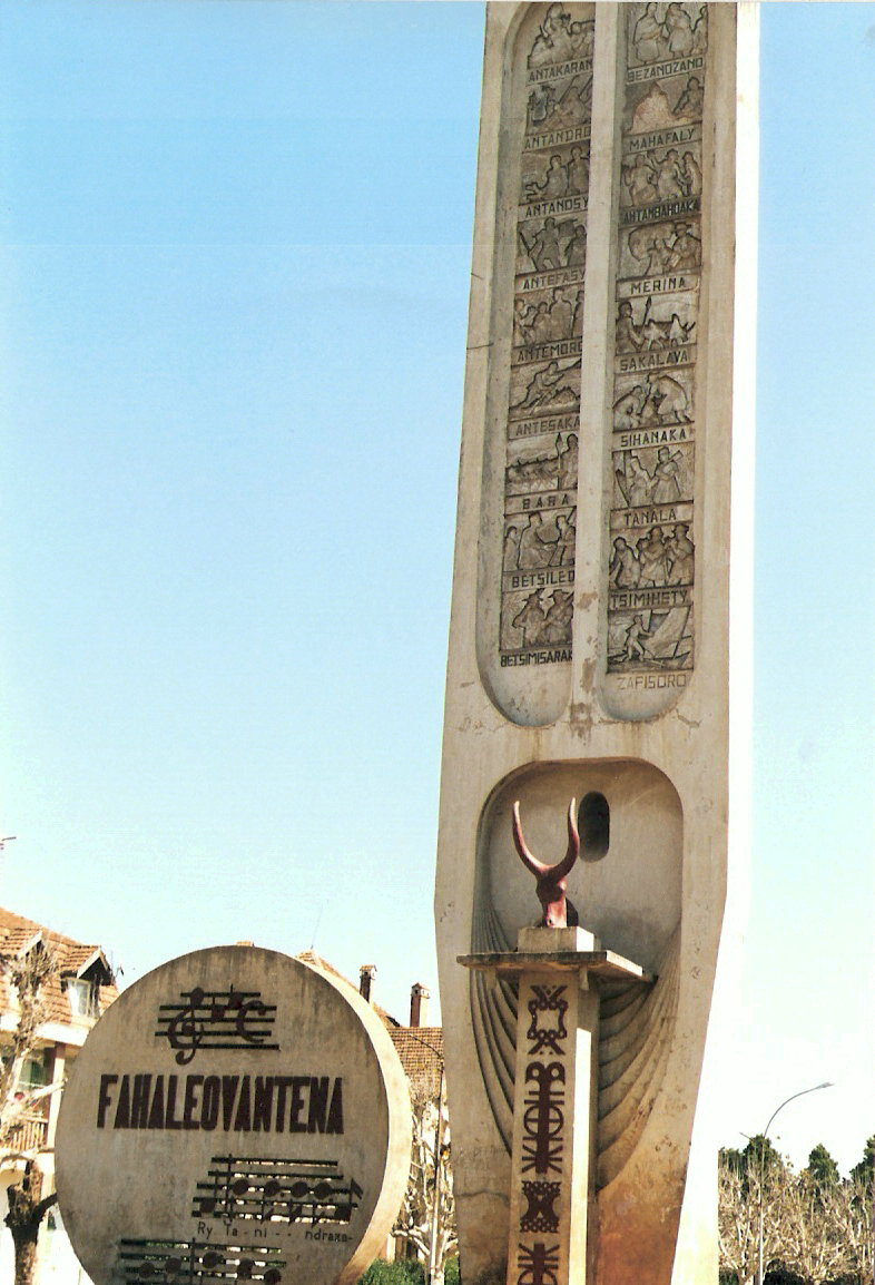 Monument in Antsirabe, Madagscar, featuring the head of a zebu, the names of the 19 tribes making up the Malagasy population, the word Fahaleovantena ("independence") and the first two measures of the national anthem of Madagascar.